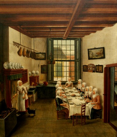 Painting of the Kitchen of the Old Women's home from Cornelis de Jonker in Gorcums Museum in Gorinchem